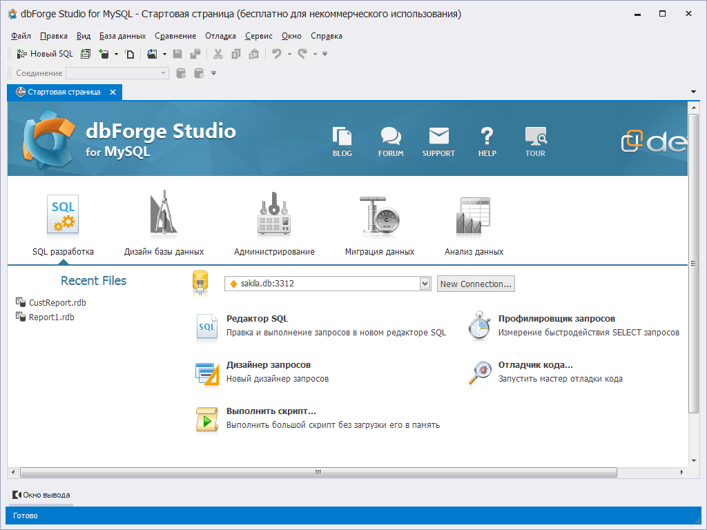 dbForge Studio for MySQL is the universal MySQL and MariaDB front-end client for database management, administration and development.